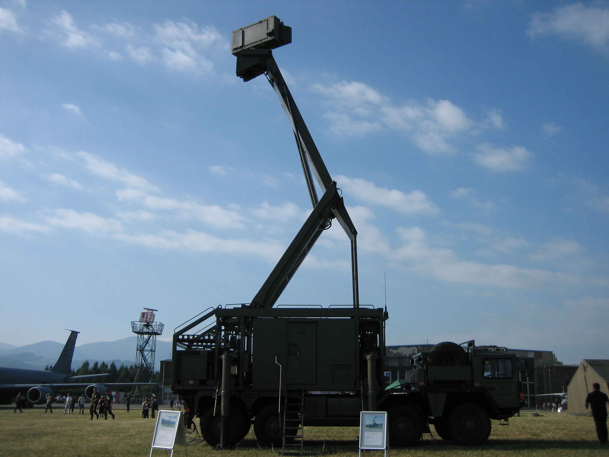 A Thales RAC 3D 3D-radar of the Austrian Air Force; ITU-classificatio: Radiolocation land station in the radiolocation service.